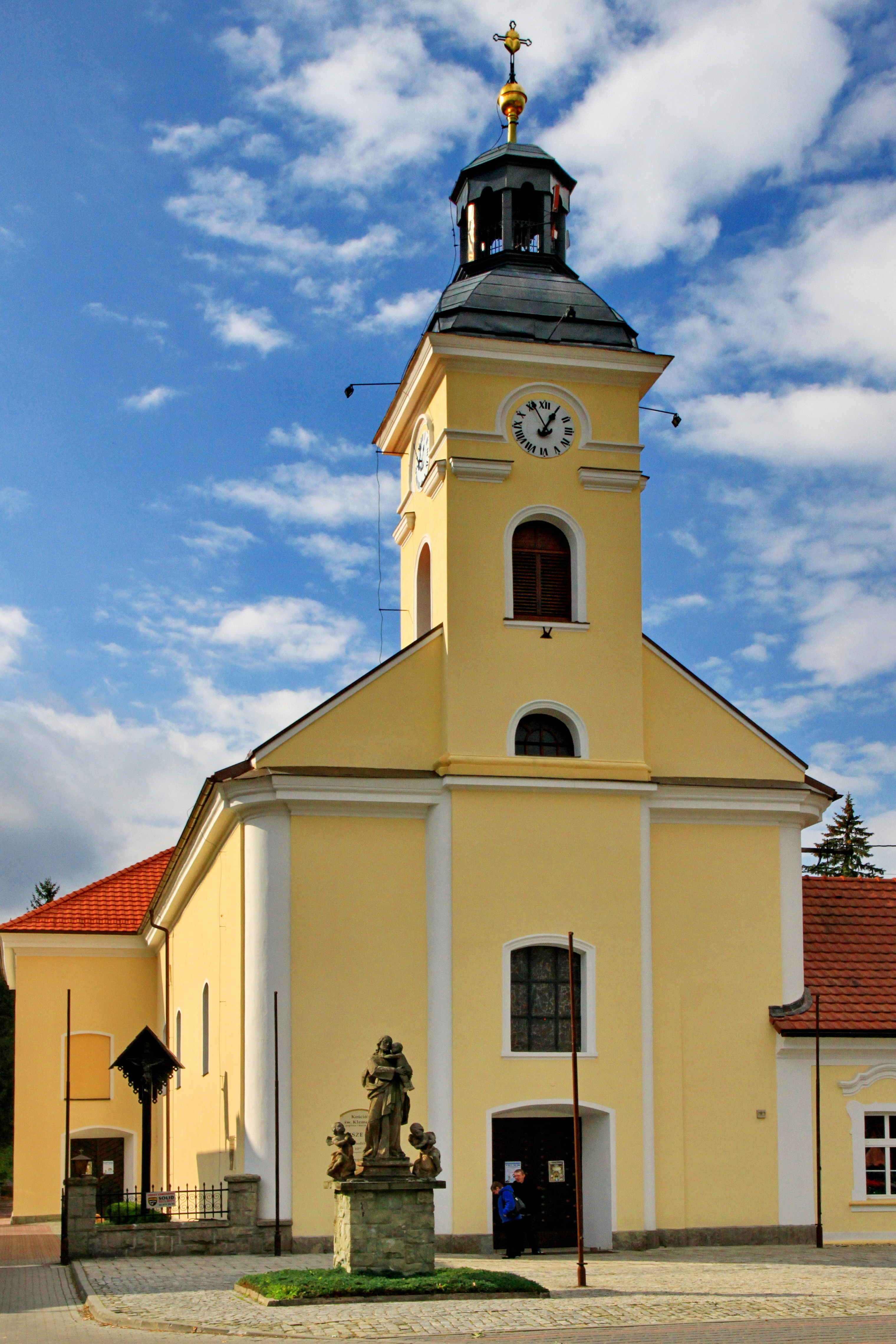 Ustroń, St. Klemens parish church, build in 1787, 1835-1848